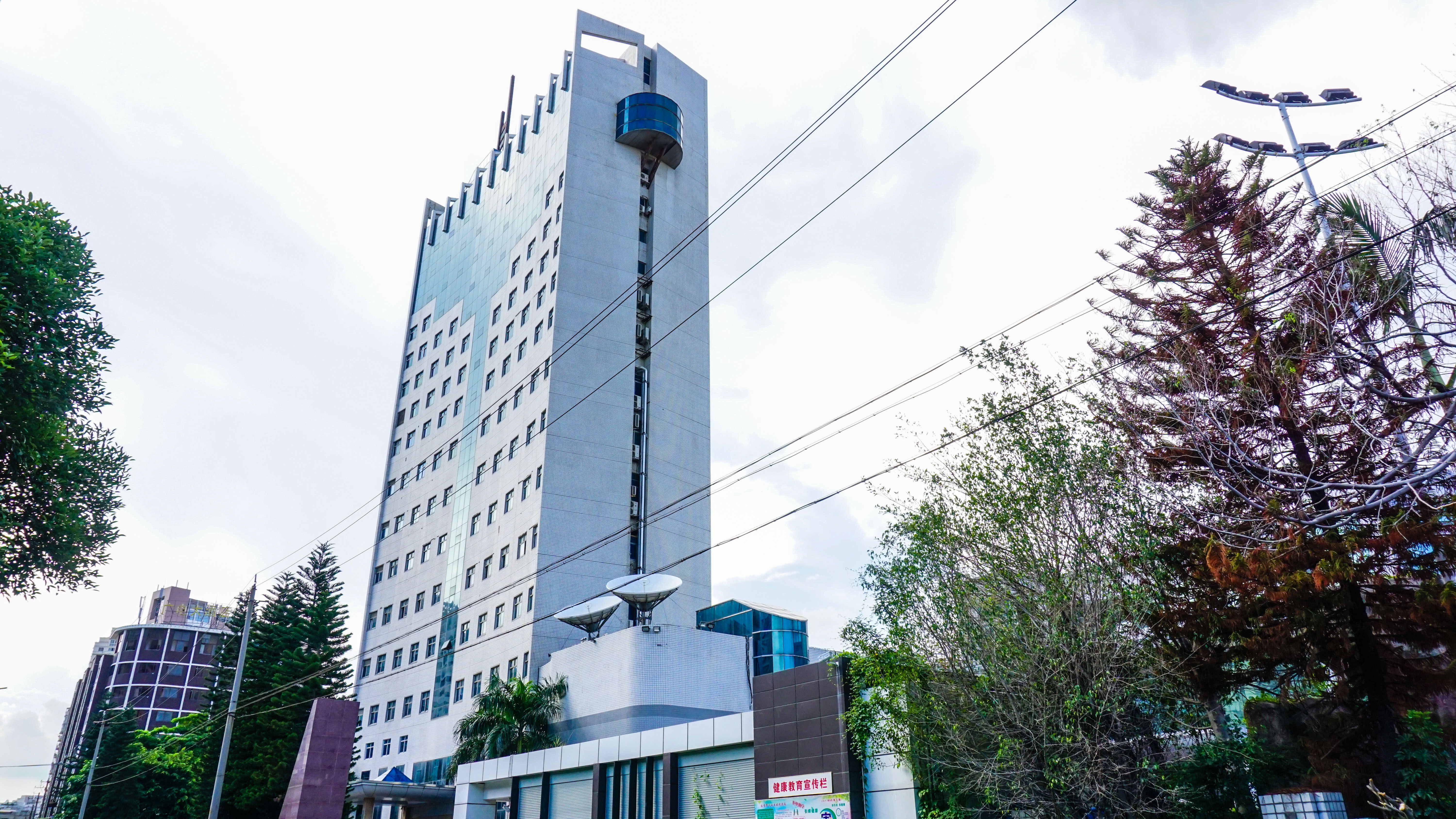 Broadcasting and Television Building at Tianhuai Street,Fengze District,Zayton City,China.